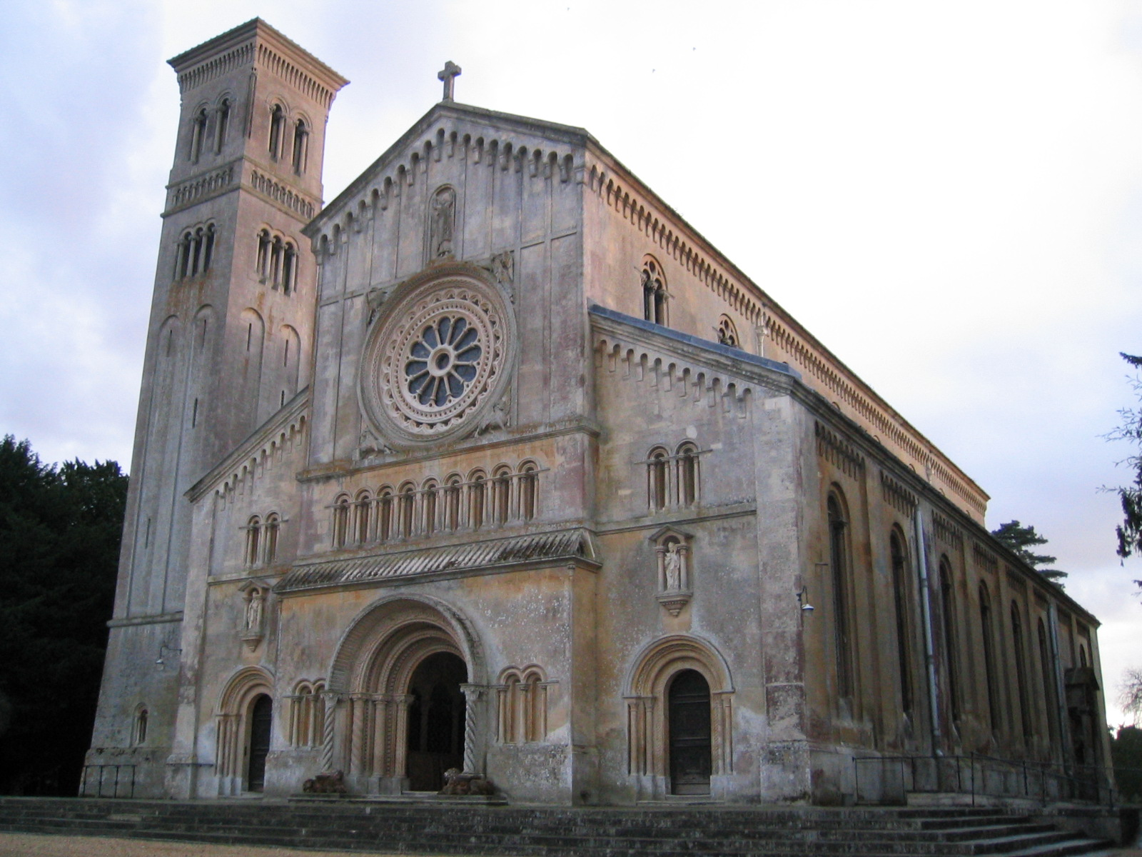 Church of England parish church of SS Mary and Nicholas, Wilton, Wiltshire